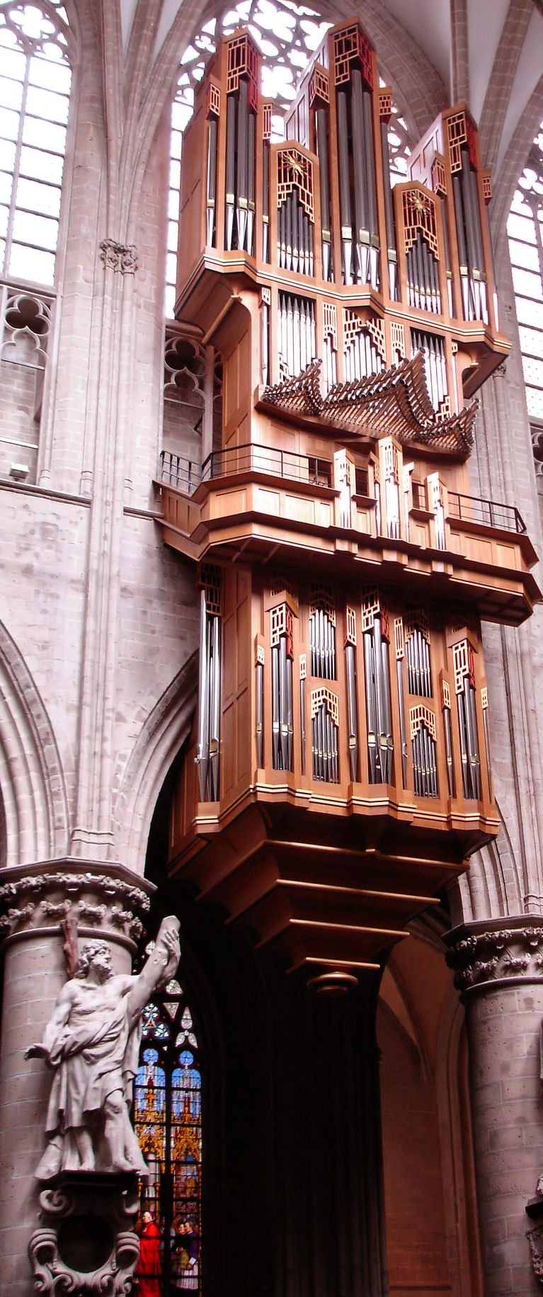 own picture taken by Carolus 18:36, 22 April 2007 (UTC)